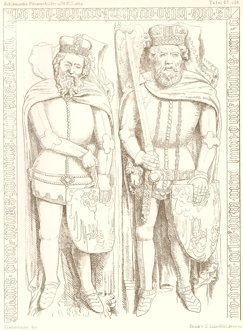 Tomb of dukes Boleslaw of Opole and Bolko II of Opole